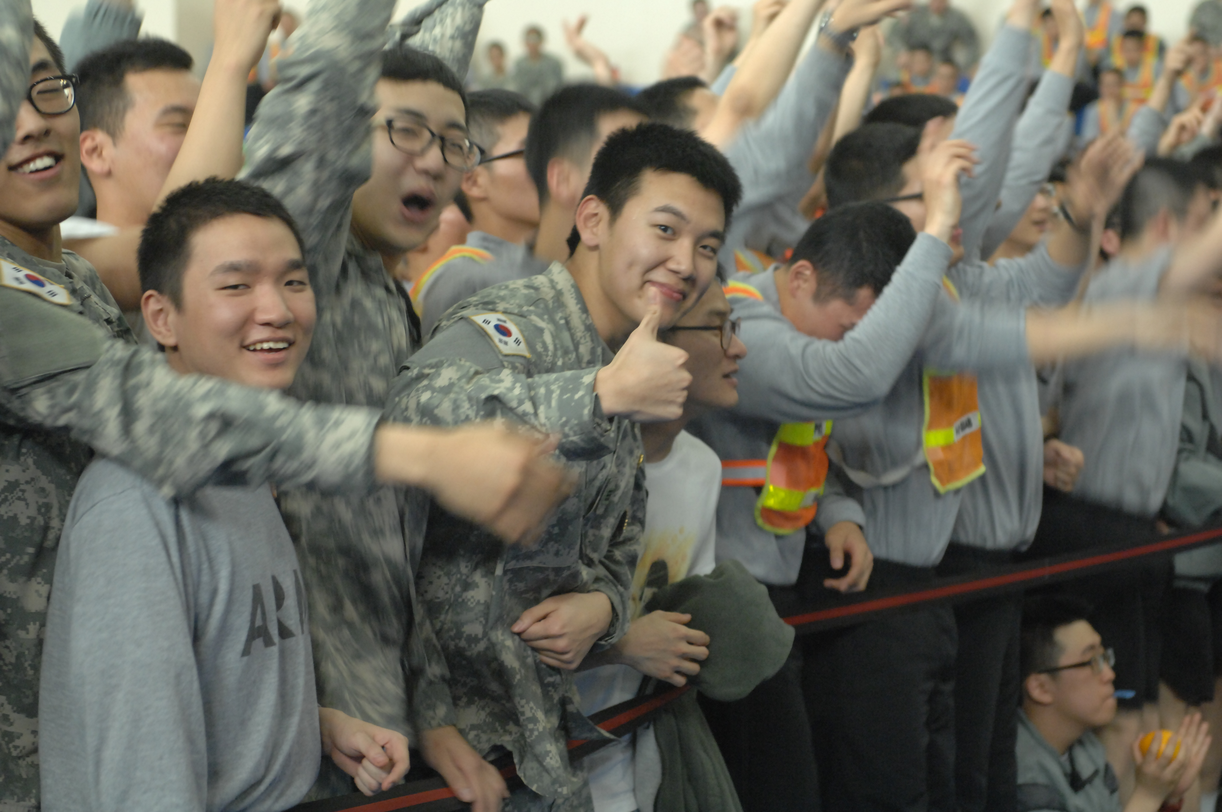 Click here to learn more about Camp Humphreys By Cpl. Han, Jae-ho USAG H Public Affairs CAMP HUMPHREYS — This is a special week for KATUSAs and U.S. Soldiers. They can relax and have fun during a five-day festivity known as KATUSA/U.S. Soldier Friendship Week. The week featured sporting events, cultural tours, concerts and unit-level activities. The celebration kicked off with an opening ceremony that featured an honor guard performance and a Tae Kwon Do demonstration by Soldiers with the 2nd Infantry Division. There were also musical numbers, which audience members received enthusiastically. KATUSAs and U.S. Soldiers competed in basketball, softball, volleyball, soccer, arm wrestling, and Ssireum wrestling, a traditional Korean sport. “I love sports, but playing with U.S. Soldiers is a whole new experience,” said Cpl. Oh, Hyeon-myeong, of Headquarters and Headquarters Company, U.S. Army Garrison Humphreys. “It is exciting to be cooperating for a common goal, and also fascinating how people from different countries can communicate well when they are playing sports.” The week also featured the Korean Culture Experience, which included rice cake making, traditional craft making, a totem pole, paper making, a twirling event, and Korean folk paintings. U.S. Soldiers gained insight into Korean customs with traditional Korean costumes and plays. One highlight of the festivities will be the talent show today, at 3 p.m., in the post theater, which will feature performances by various KATUSA and U.S. Soldiers.